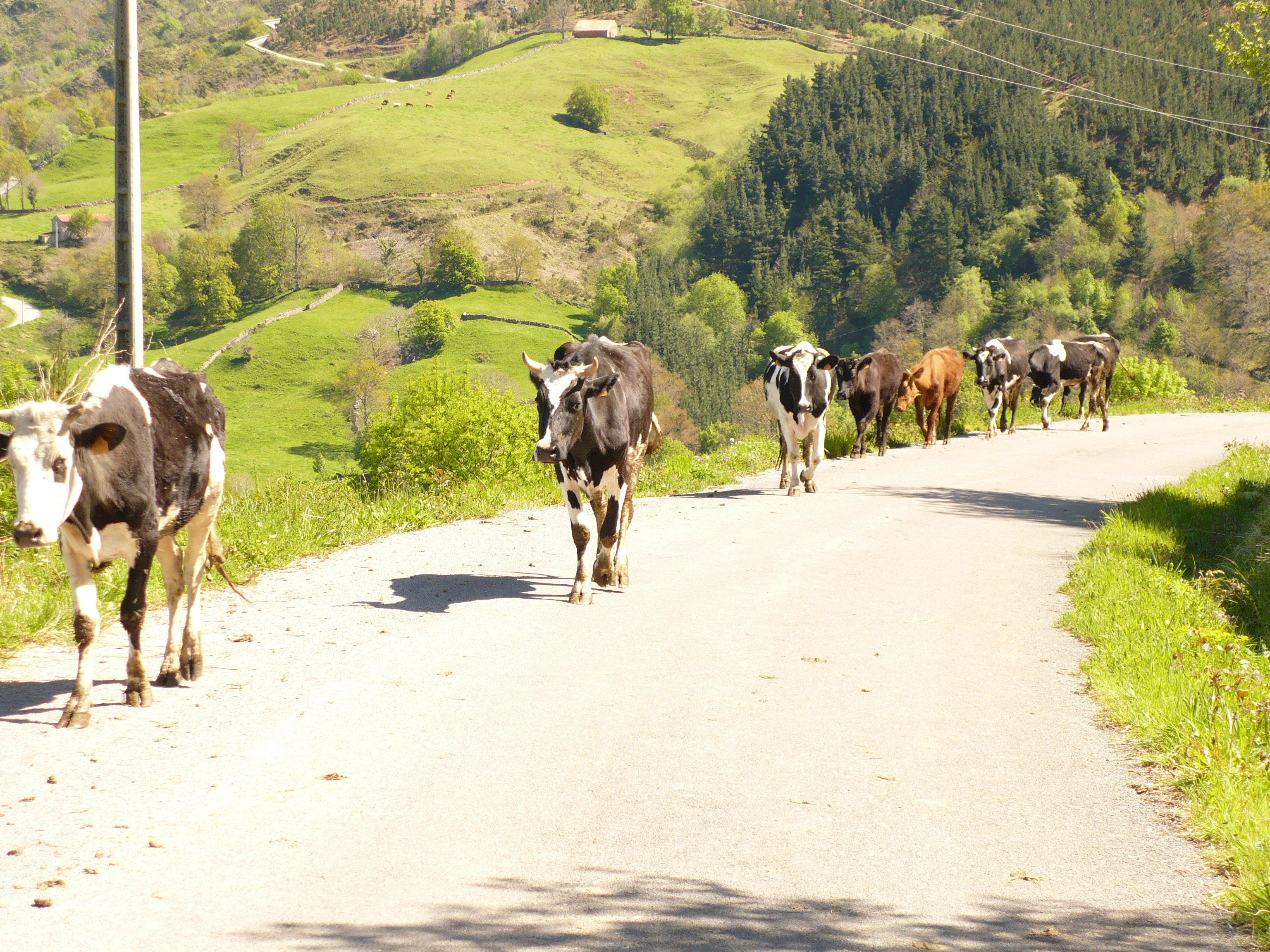 Cattle in Luena (Cantabria)